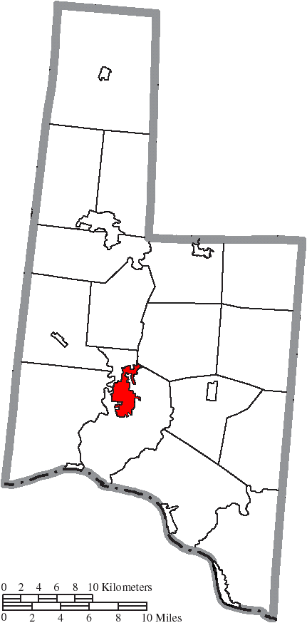 Map of the municipal and township boundaries of Brown County, Ohio, United States, as of the 2000 census, with the location of the village of Georgetown highlighted. Township borders are shown only in unincorporated areas in order to differentiate incorporated and unincorporated areas more clearly.